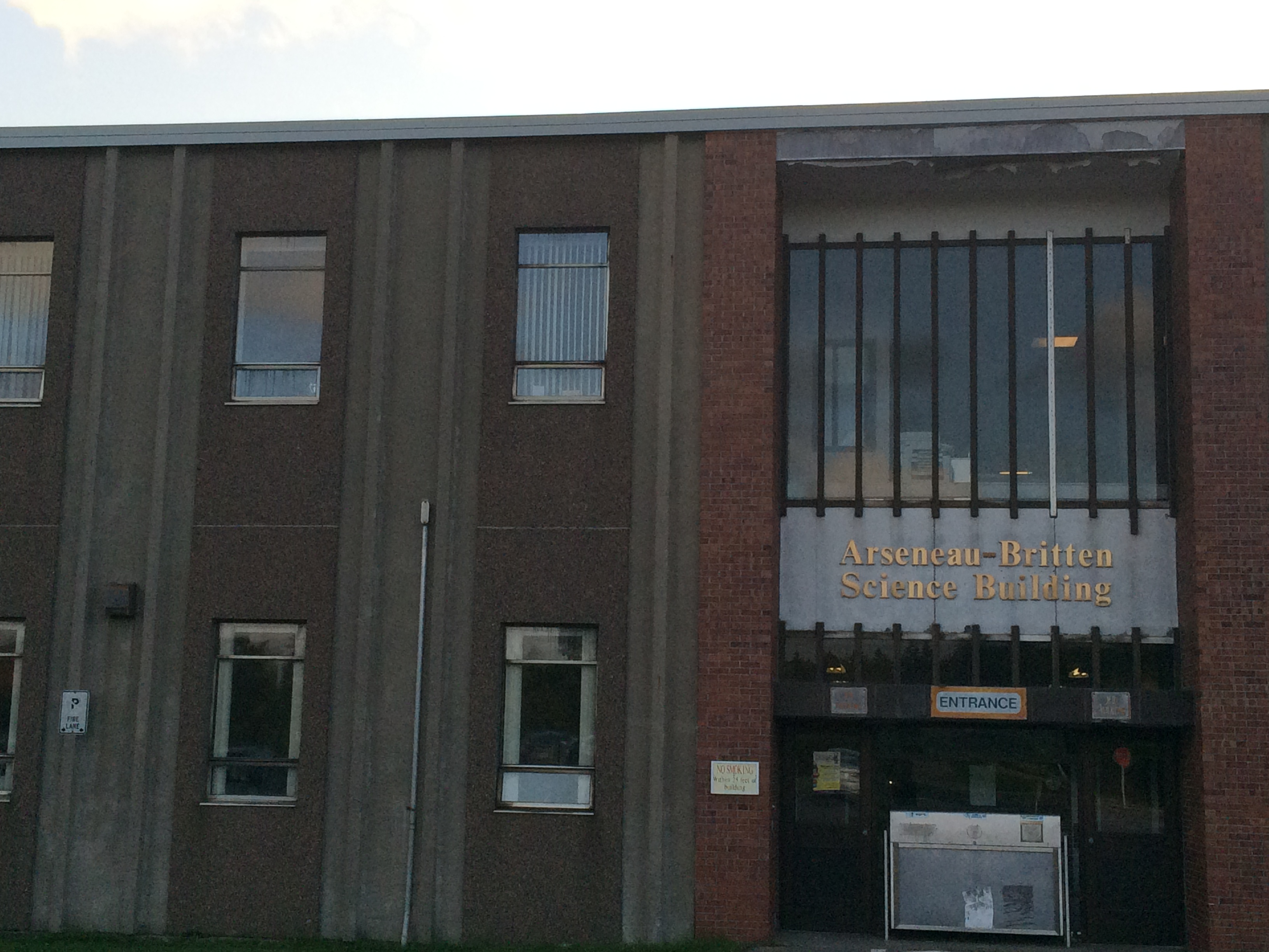 Entrance to the Science Wing.